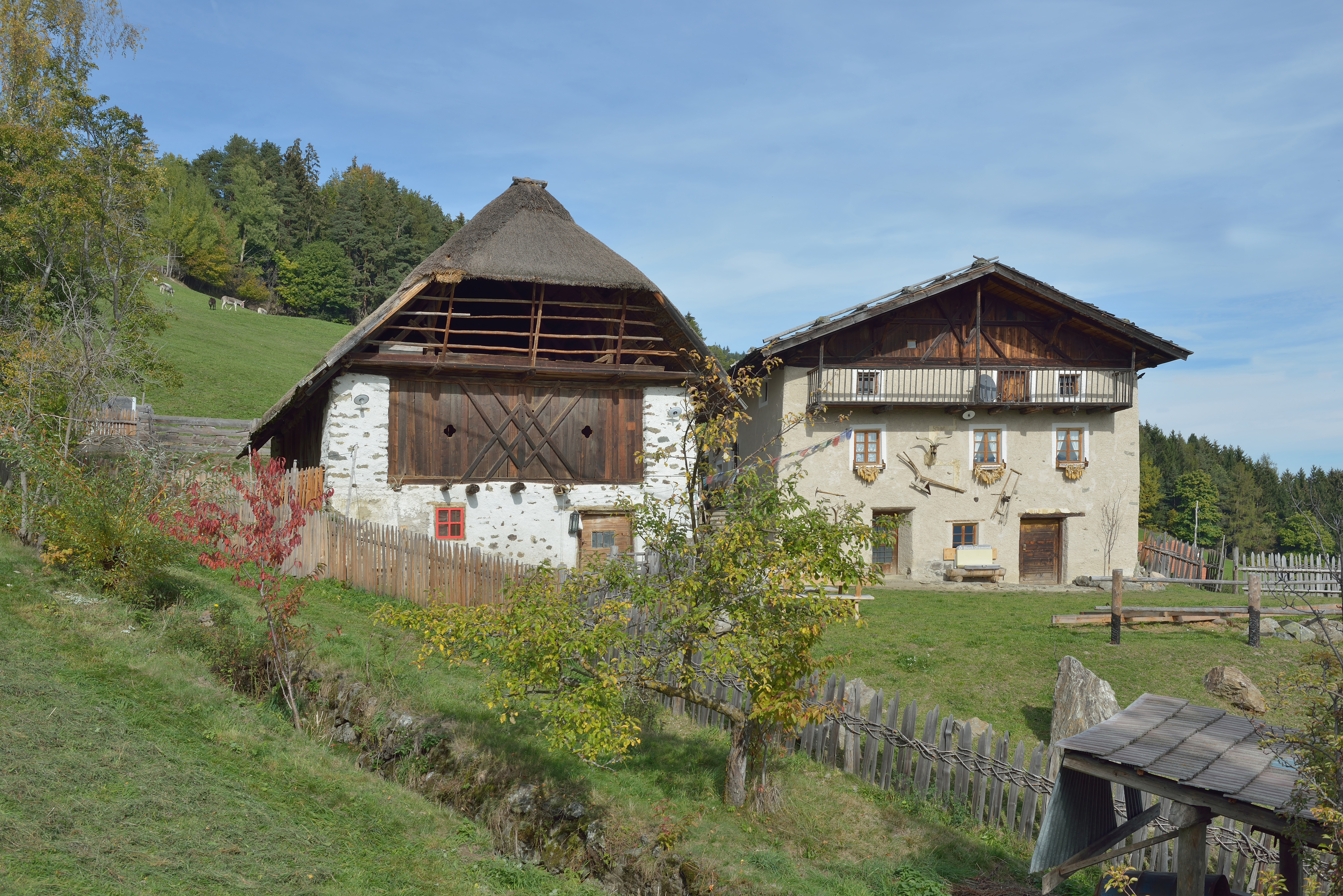 Farmhouse Felder in Villanders